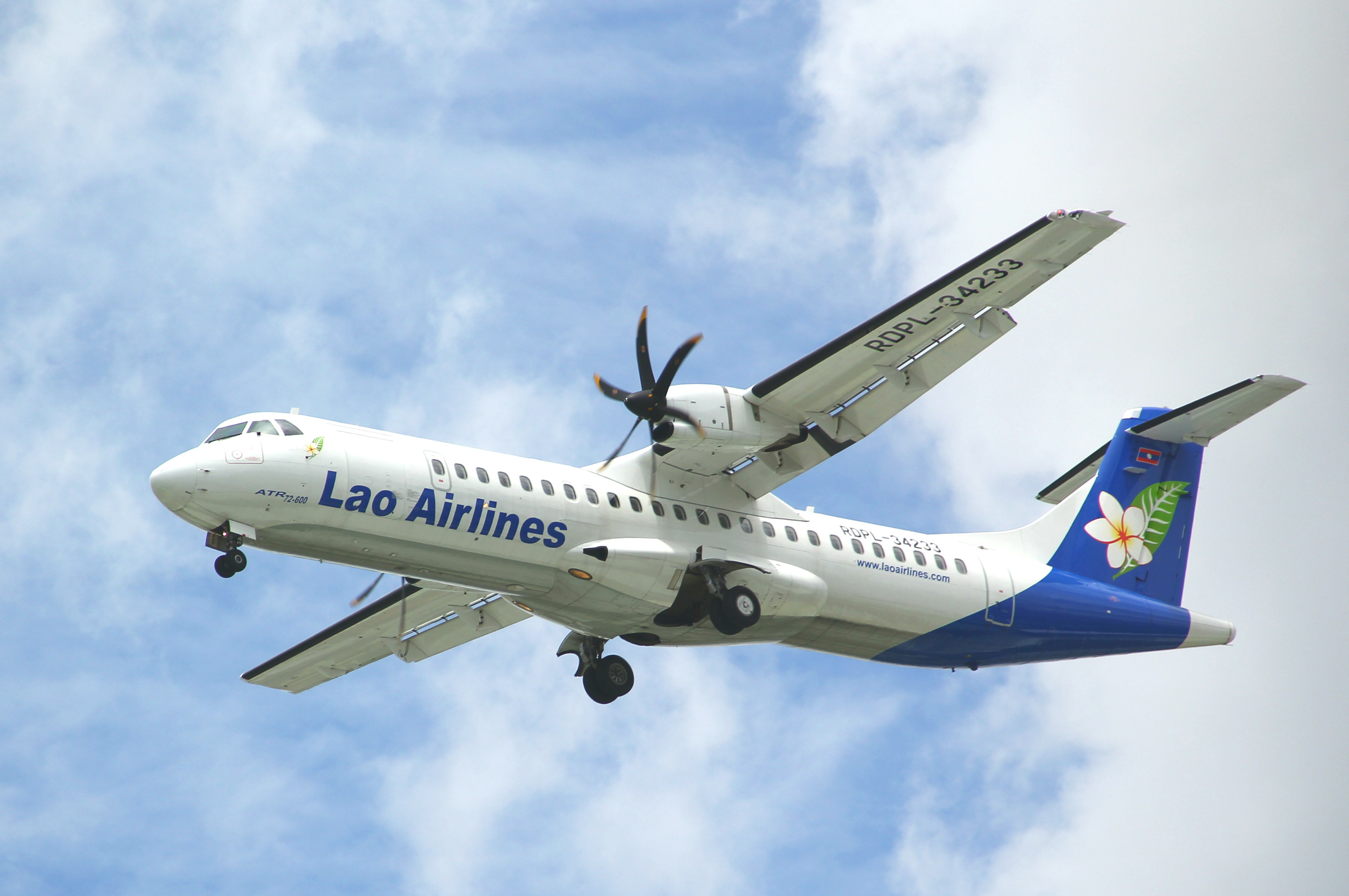 An ATR 72-600 (RDPL-34233) of Lao Airlines landing at Tan Son Nhat International Airport in Ho Chi Minh City. This aircraft crashed as Lao Airlines Flight 301 one month later.